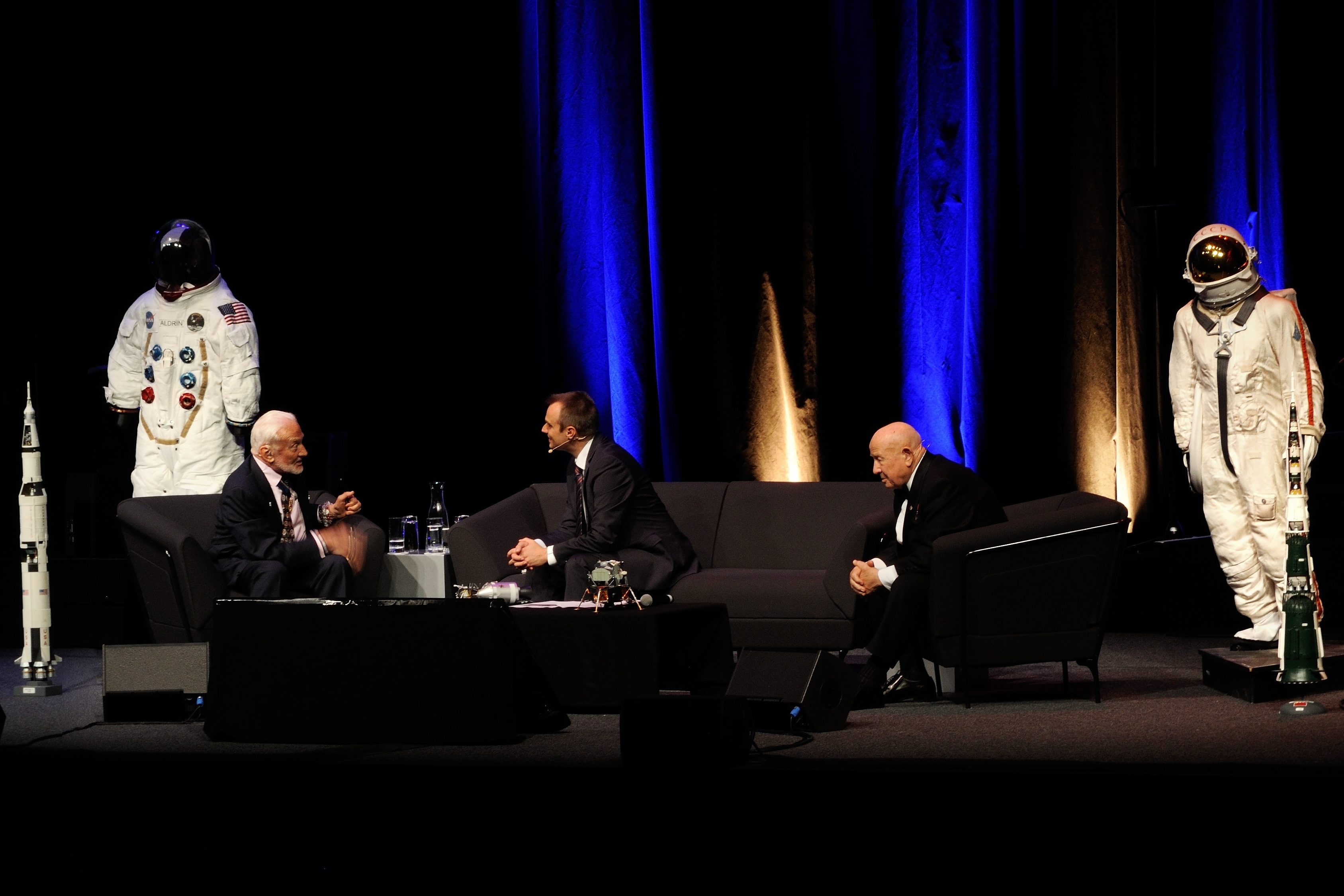 Space pioneers Buzz Aldrin and Alexey Leonov with Lukas Viglietti at the Swiss Tech Convention Centre, on 13 November 2015.